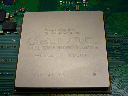 PS3 Cell Broadband Engine CPU